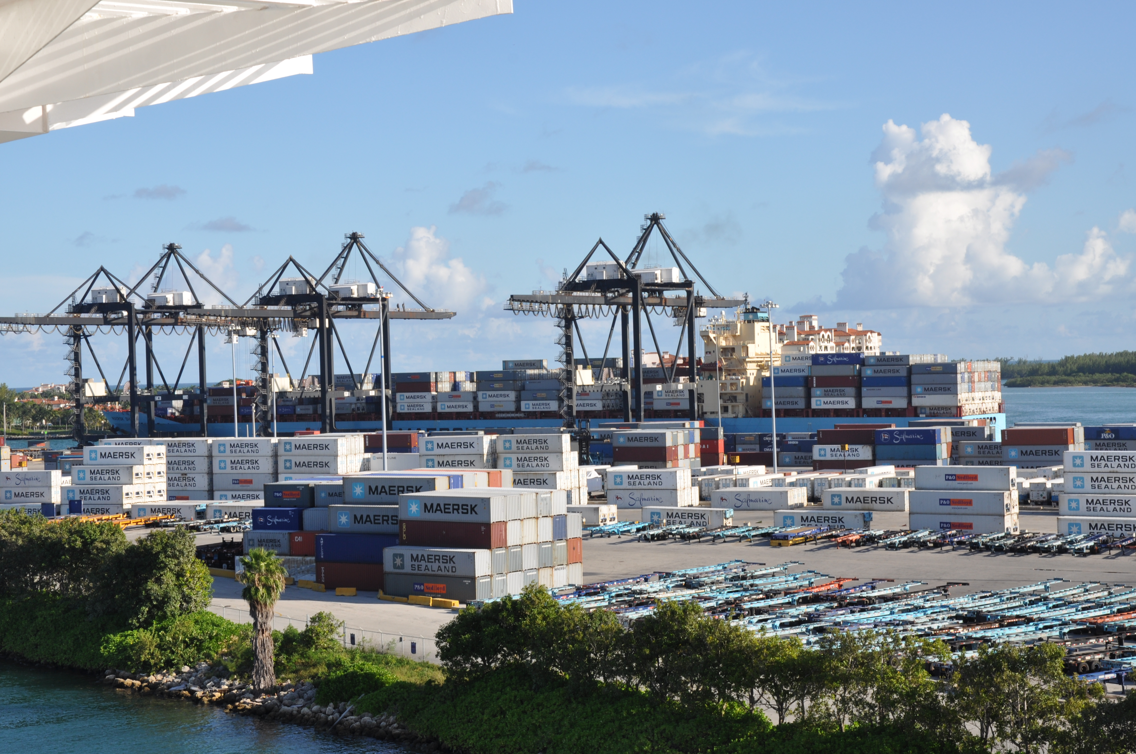 Port of Miami container yard